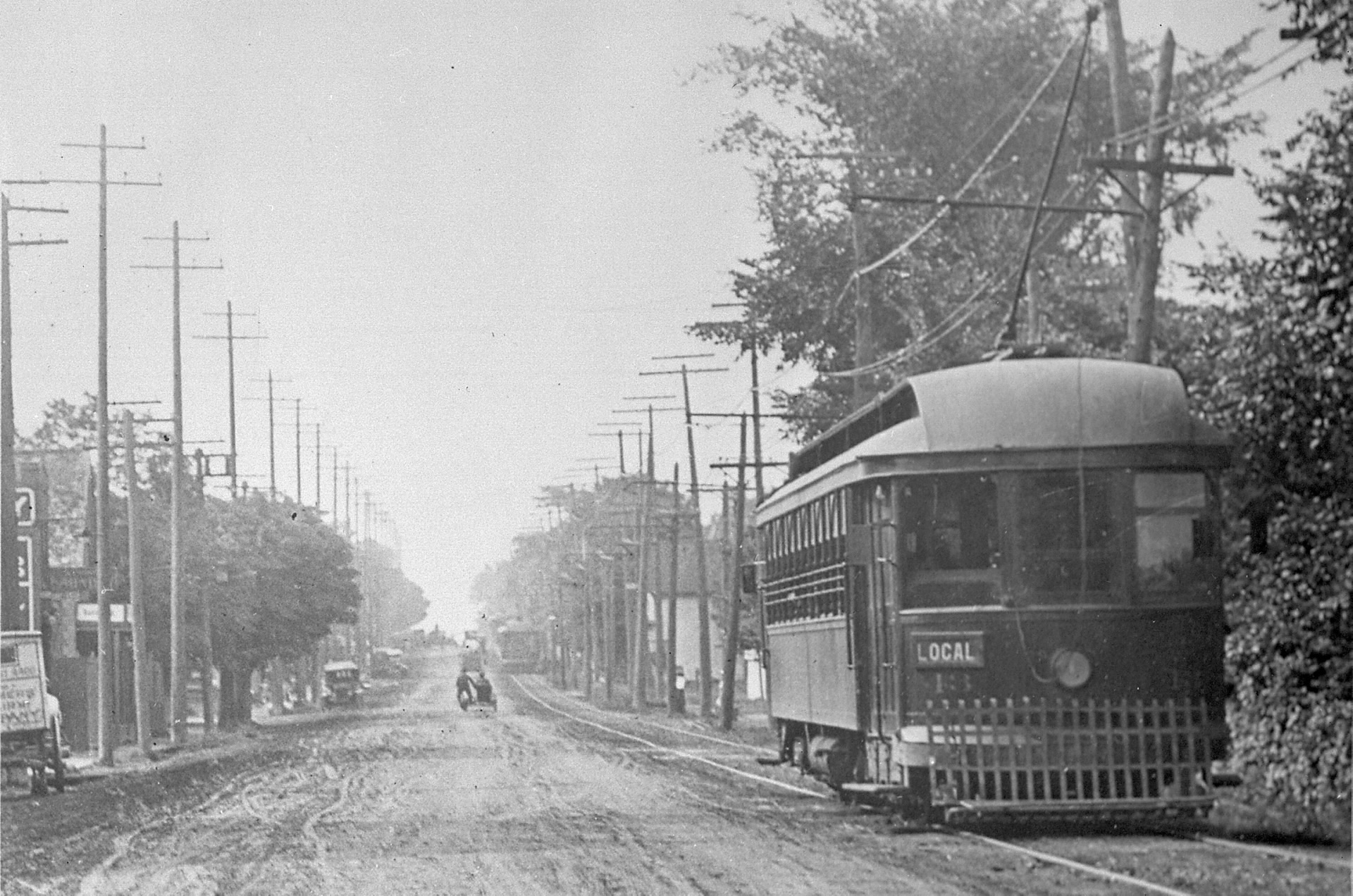 Car 43 on the Metropolitan line, 1912: This electric streetcar belonging to the Toronto and York Radial Railway is pictured on Yonge at Yonge Blvd. Incorporated in 1877, this railway was animal-powered until it converted to electric in 1890. The radial railroads were for travel between cities, and were largely replaced by buses once the highways came along in the 1920s and '30s... until the '70s, of course, when the GO Transit service began. Creator: Unknown Date: 1912 Identifier: 976-21-6 Format: Ephemera Rights: Public domain Courtesy: Toronto Public Library. More information: (view details and larger image)